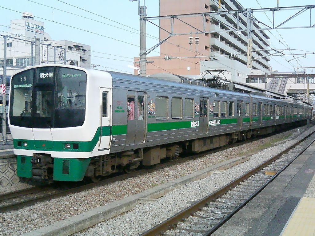 JR Kyushu EMU set P9 in Mitsui Greenland livery at Minami-Fukuoka Station in Fukuoka, Japan